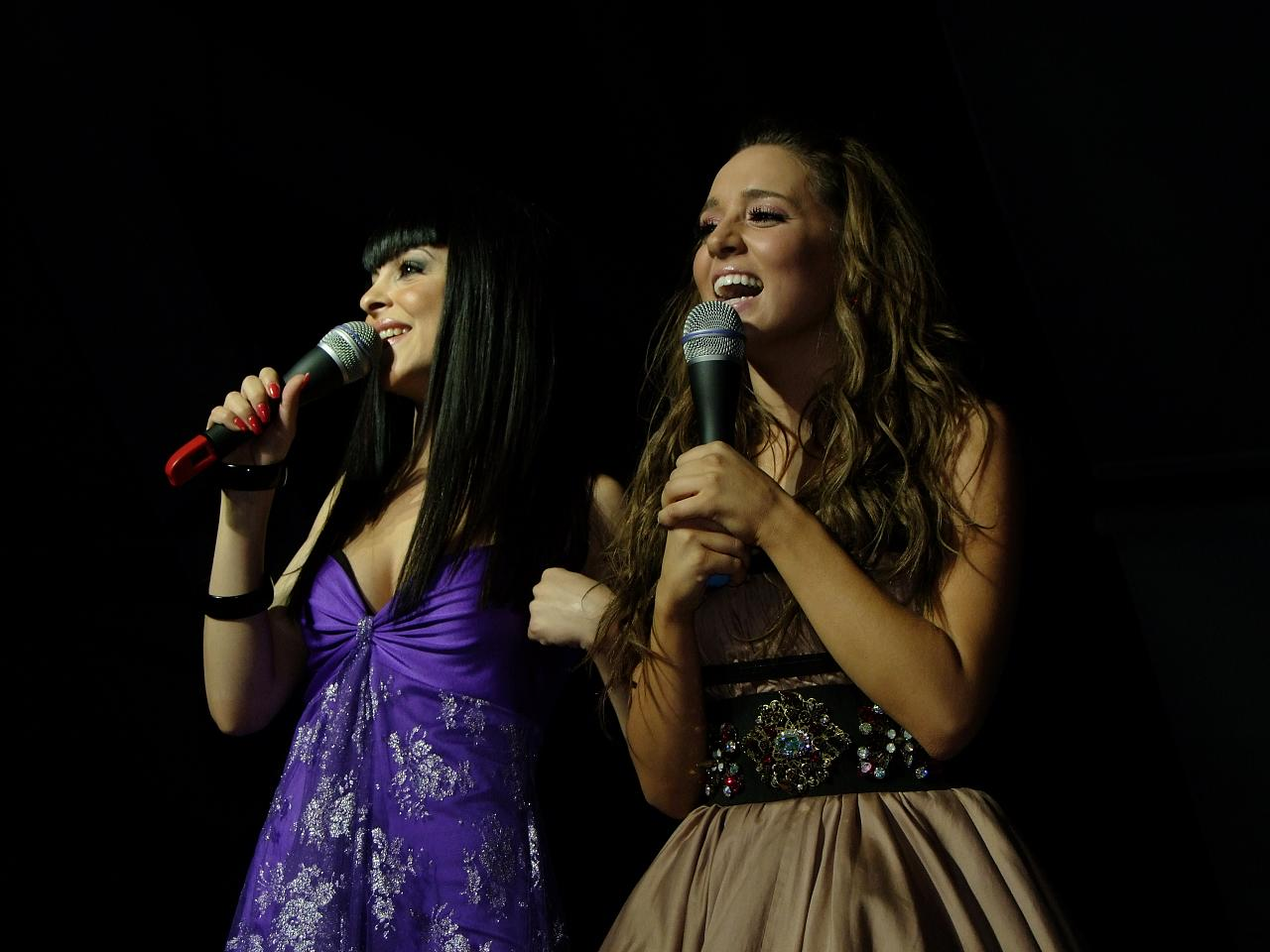 Left to right: Evdokia Kadi and Kalomoira